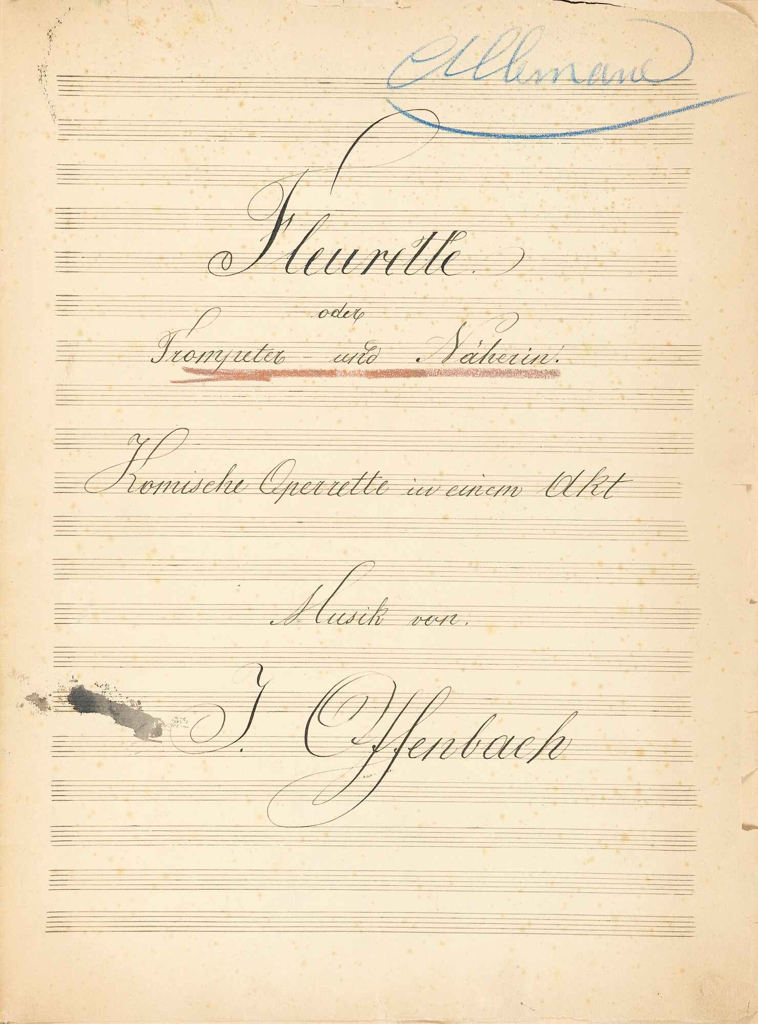 Title page of the autograph of operetta "Fleurette oder Trompeter und Näherin" by Jacques Offenbach